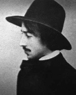 Bulgarian painter Georgi Mashev